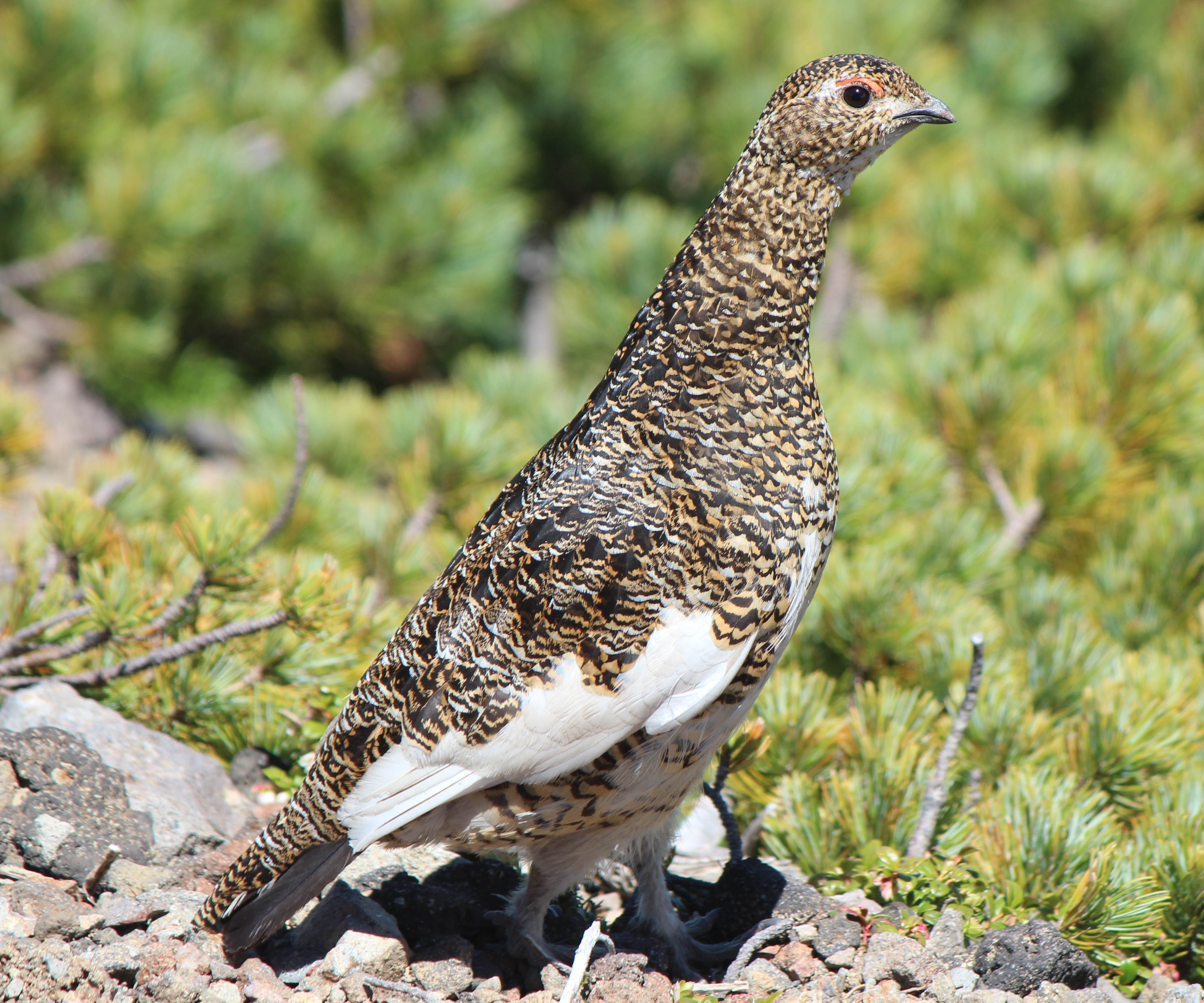 Lagopus muta japonica, female in Mount Ontake, Gero, Gifu prefecture, Japan.